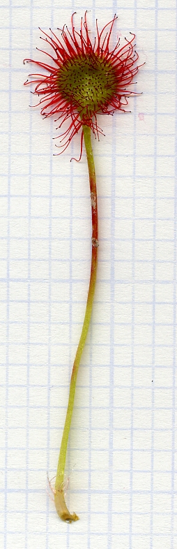 Description: Leaf of Drosera rotundifolia from Mendocino Co., CA., on a 1/10 inch grid. Photo taken by: Noah Elhardt